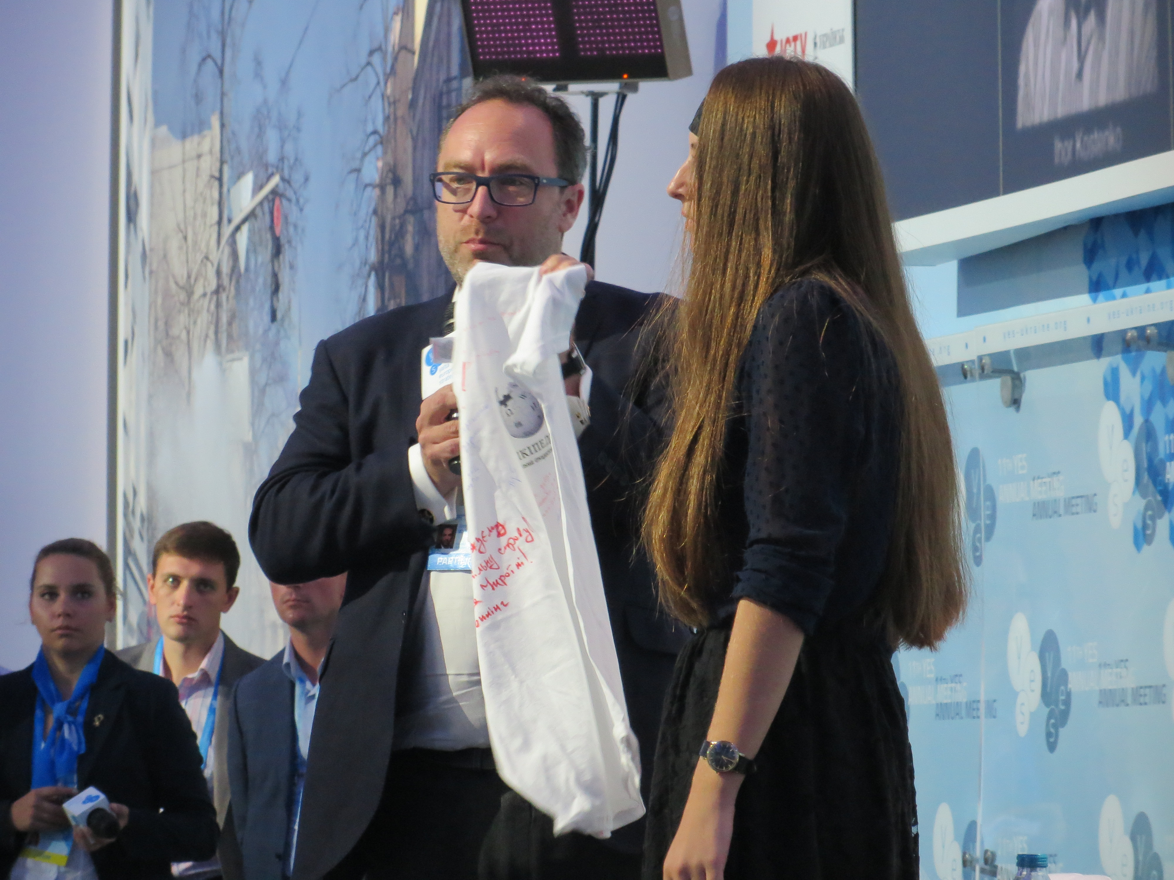 Jimmy Wales with Inna Kostenko at Yalta European Strategy 2014 in Kyiv during the ceremony of commemoration of Wikipedian of the year - Igor Kostenko.